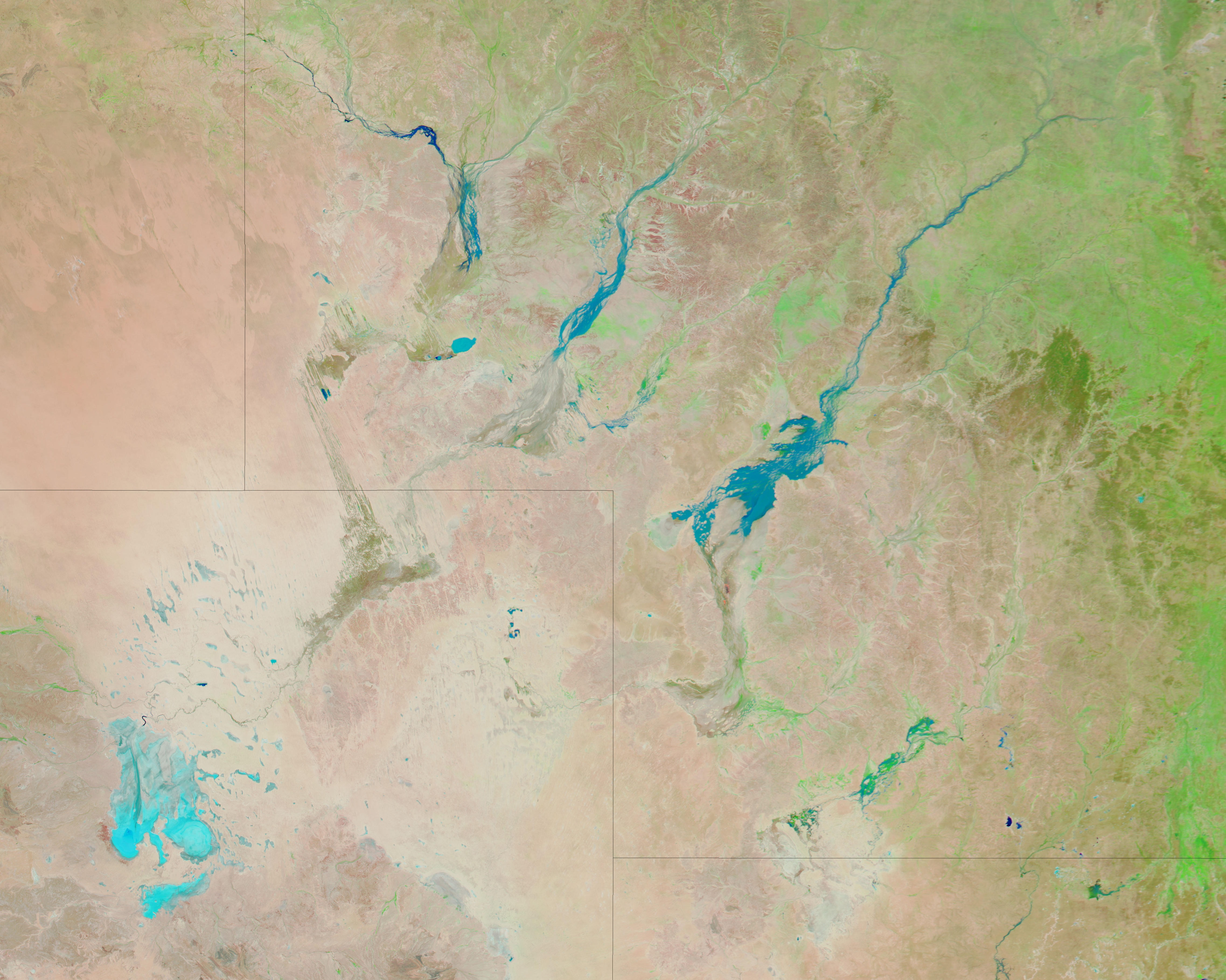 Image of southwestern Queensland (upper right), the southeastern Northern Territory (upper left), northeastern South Australia (lower left) and northwestern New South Wales (lower right), Australia, acquired on January 18, 2010. Lines superimposed on the image are boundaries between the said political entities. This image uses a combination of infrared and visible light to increase the contrast between water and land. Vegetation, even sparse vegetation, appears bright green. Clouds appear sky blue. Water varies in colour from electric blue to navy. Bare ground appears pink-brown. Davenport Downs, a cattle station, and Windorah, a little Outback town, are surrounded or soaked by floodwaters. This image covers roughly the area bounded by latitudes 22°S (top) and 30°S (bottom), and longitudes 136°E (left) and 147°E (right).